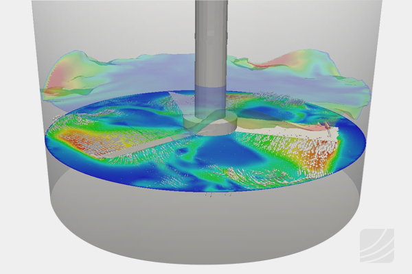 with the SimScale cloud-based CAE platform.